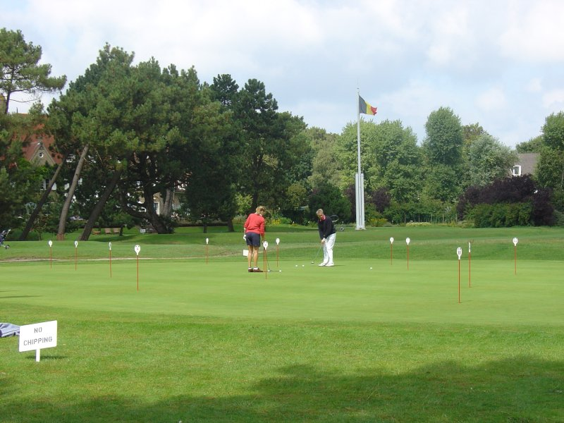 Putting green at Royal Zoute GC in Belgium